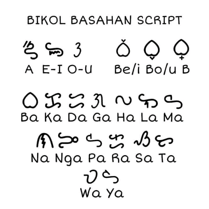 This is the representation of guhit script of Bikol languages shows "ra" that not present in Basahan (Baybayin) of Tagalog.